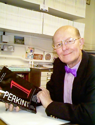 Professor Charles Rees, wearing Mauveine-dyed bow tie and holding Perkin Journal. Photo by Henry S. Rzepa.